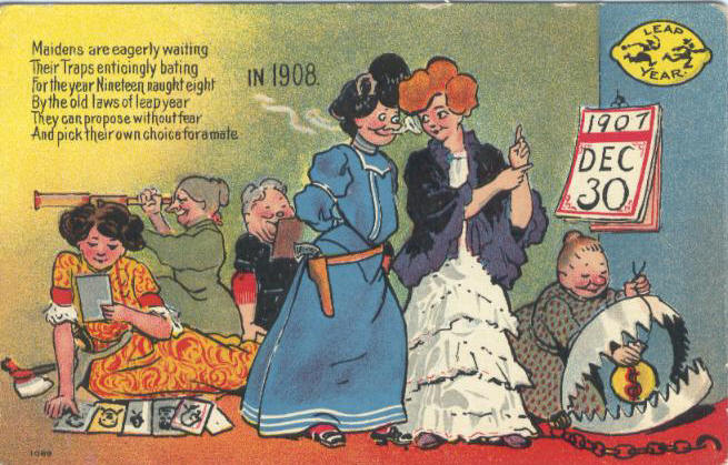 Postcard: Leap year, 1908 Description: Cartoon on theme of women proposing in leap years. Caption: "Maidens are eagerly awaiting ..."